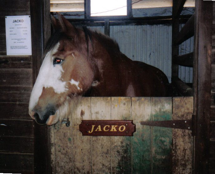 Jacko the cyldesdale at avondale farm. Jacko retired from working at Avondale in December 2005, now a family pet on a farm in Northam